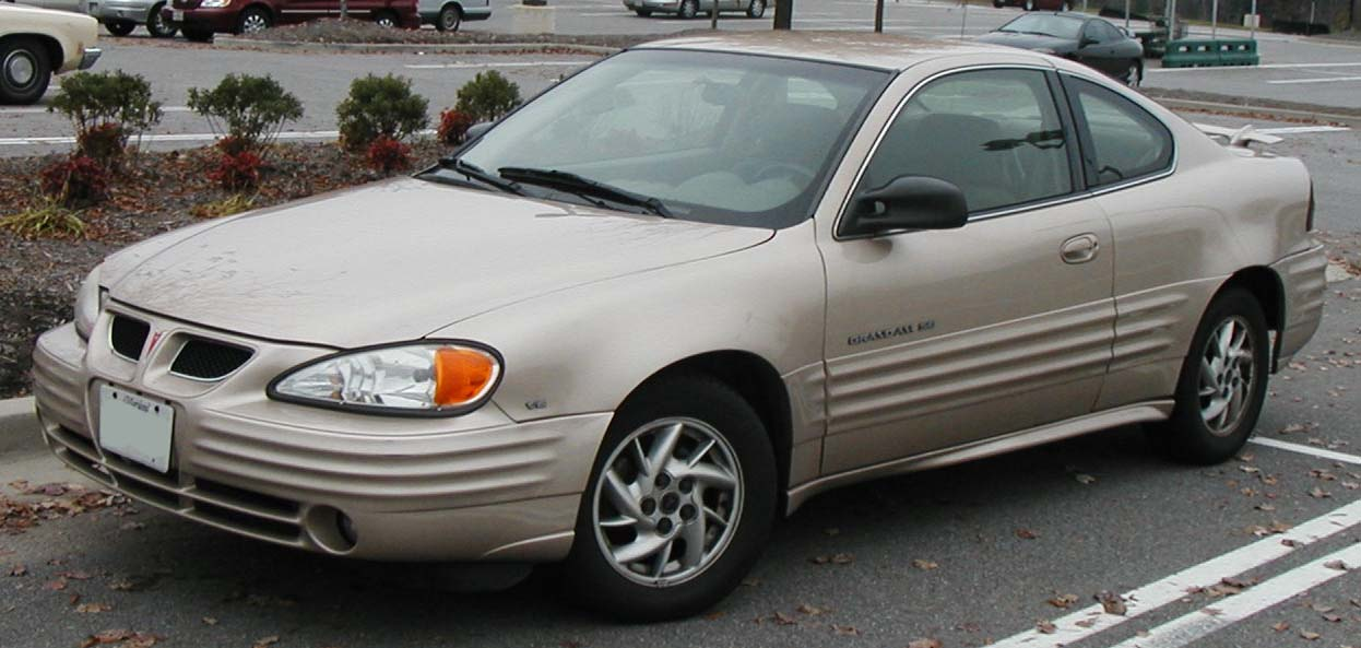 1999-2002 Pontiac Grand Am coupe photographed in USA.